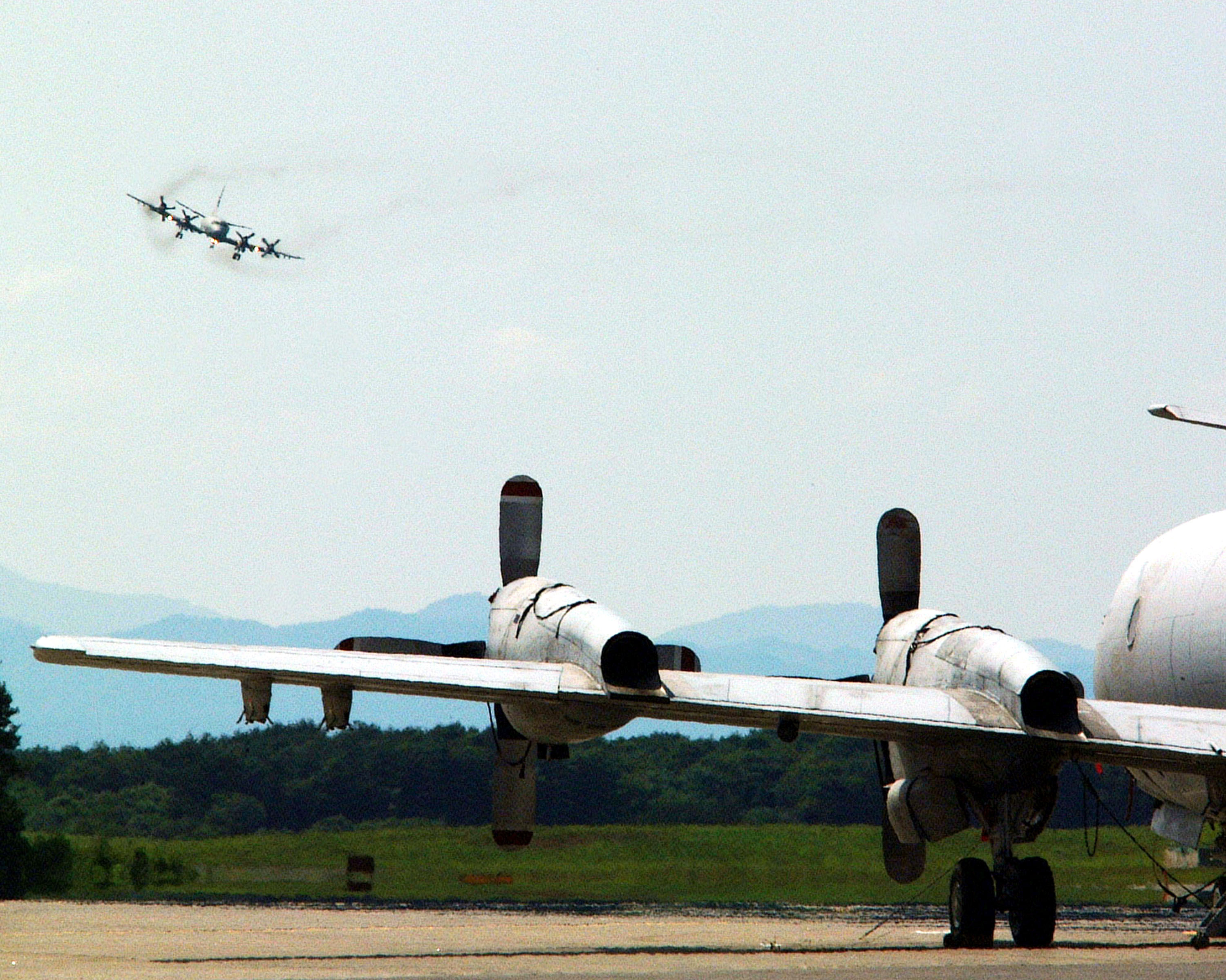 010702-N-8726C-001 Naval Air facility Misawa, Japan (Jul. 2, 2001) -- A P-3C "Orion" aircraft from Patrol Squadron Four Six (VP-46) makes a final approach into the Naval Station during a scheduled deployment in the region. U.S. Navy photo by Photographer's Mate 2nd Class John Collins. (RELEASED)